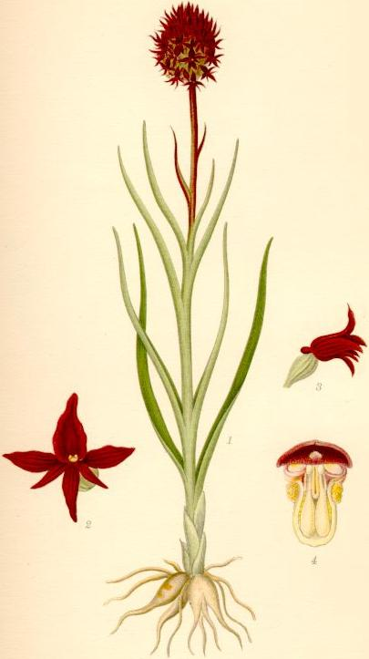 A kind of orchid, Gymnadenia nigra